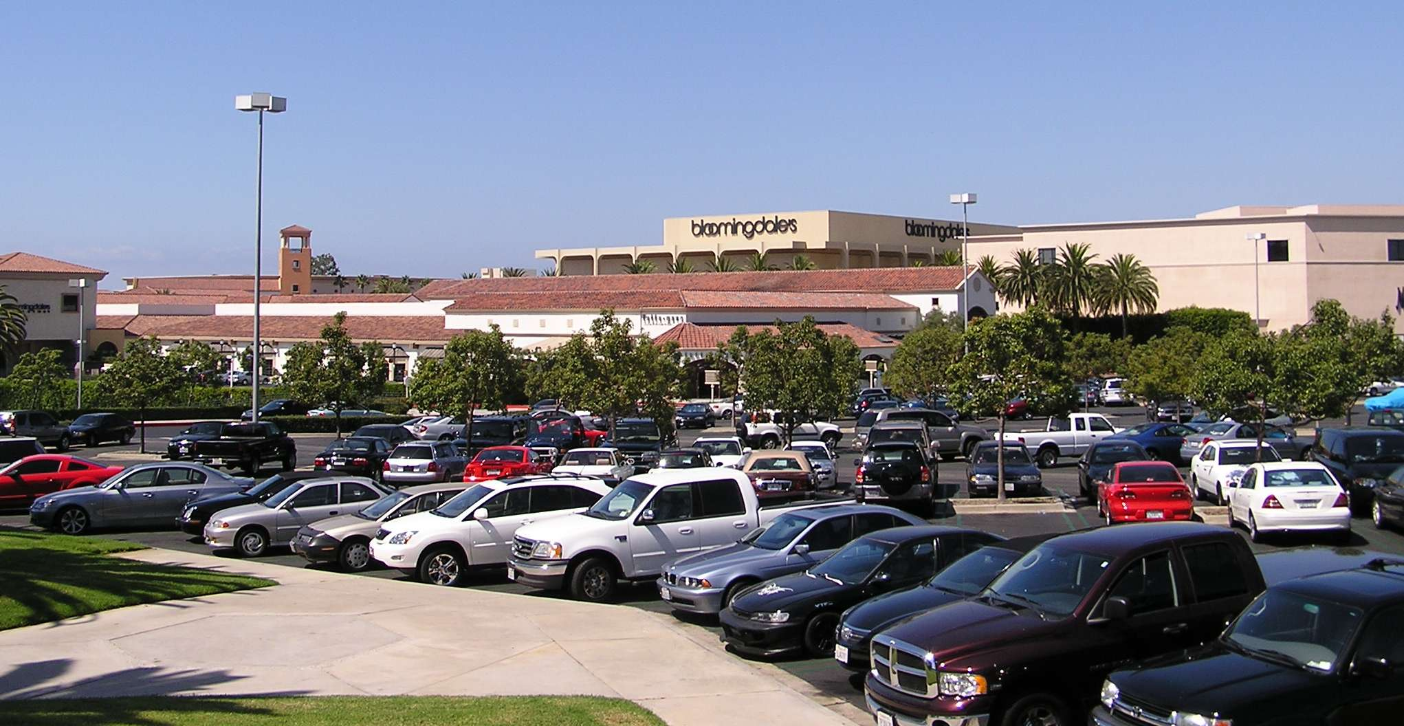 Fashion Island Mall in Newport Beach, CA.